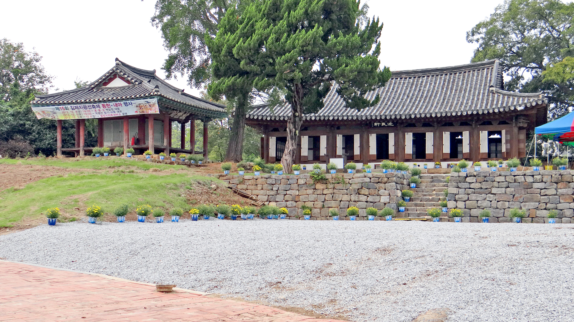 Gimje Dongheon (town magistrate's office) is a traditional Joseon Era Korean style building built in 1667 used as the town office from the period of imperialist Japan until the early 1960's. Noteworthy as the only Dongheon currently surviving with Naedongheon (magistrate's quarters), this building had been left abandoned for a long period, but now has been restored several times in recent years. Historic Relic #482. Provincial tangible cultural asset #60.